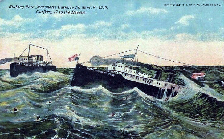 Postcard depiction of the sinking of the Pere Marquette car ferry number 18 on September 10, 1910. The railway operated rail car ferries on Lake Michigan and Lake Erie, as well as some rivers. The ferry carried 62 people and 29 rail cars when it began taking on vast amounts of water. The captain dumped 9 railcars into Lake Michigan, but it didn't help the sinking ship, which was traveling to Milwaukee from Ludington, Michigan. The ship was able to send a distress call and fortunately the Pere Marquette ferry number 17 was not far away. Number 17 went to the rescue of the sinking ferry. Number 18 sank shortly after the arrival of the rescue ferry. There were 33 survivors of the disaster.